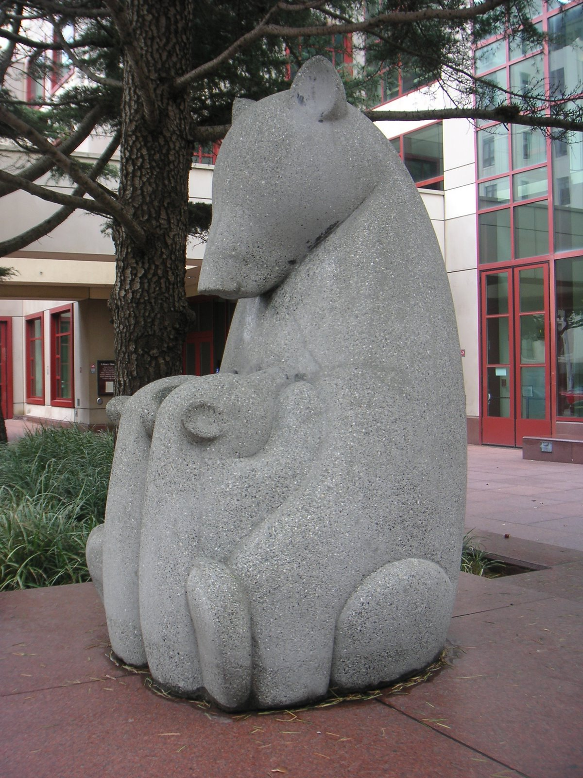 "Bear and Cubs" — granite sculpture by Benny Bufano, on the Parnassus campus of the University of California, San Francisco.